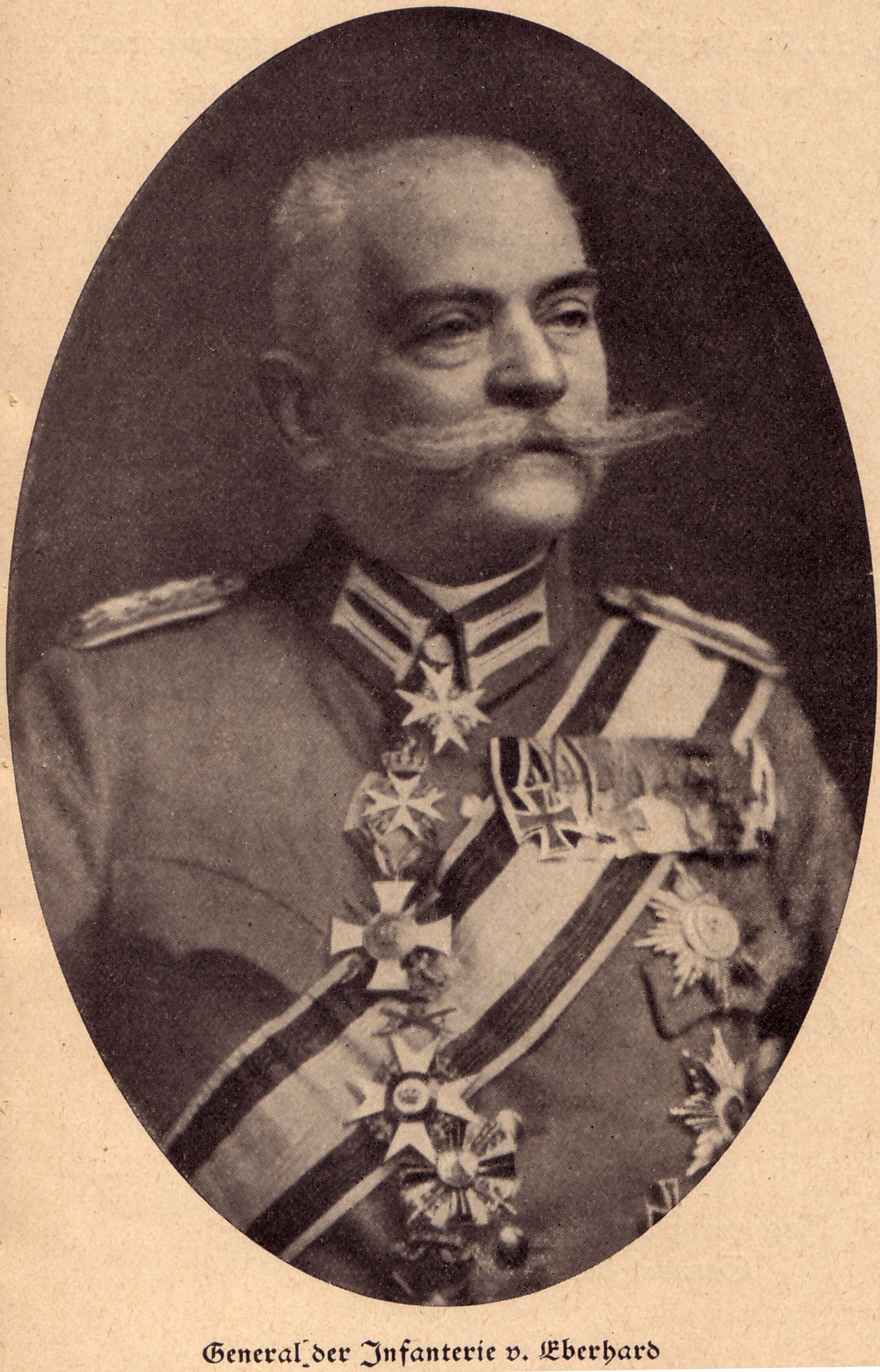 German General Magnus von Eberhard (WW1)